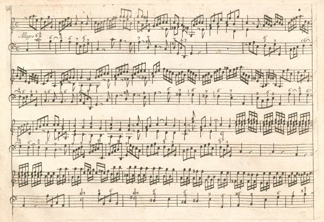 Allegro from first edition of Sonata Op.5 No.3 by Arcangelo Corelli, published by Gasparo Pietra Santa